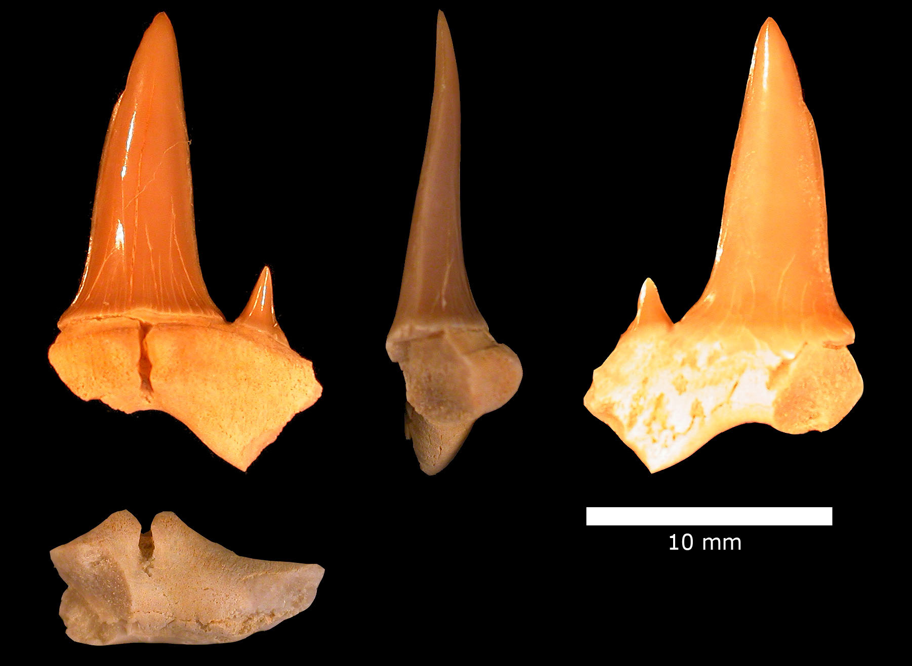 Carcharias holmdelensis tooth, Menuha Formation (Upper Cretaceous), southern Israel